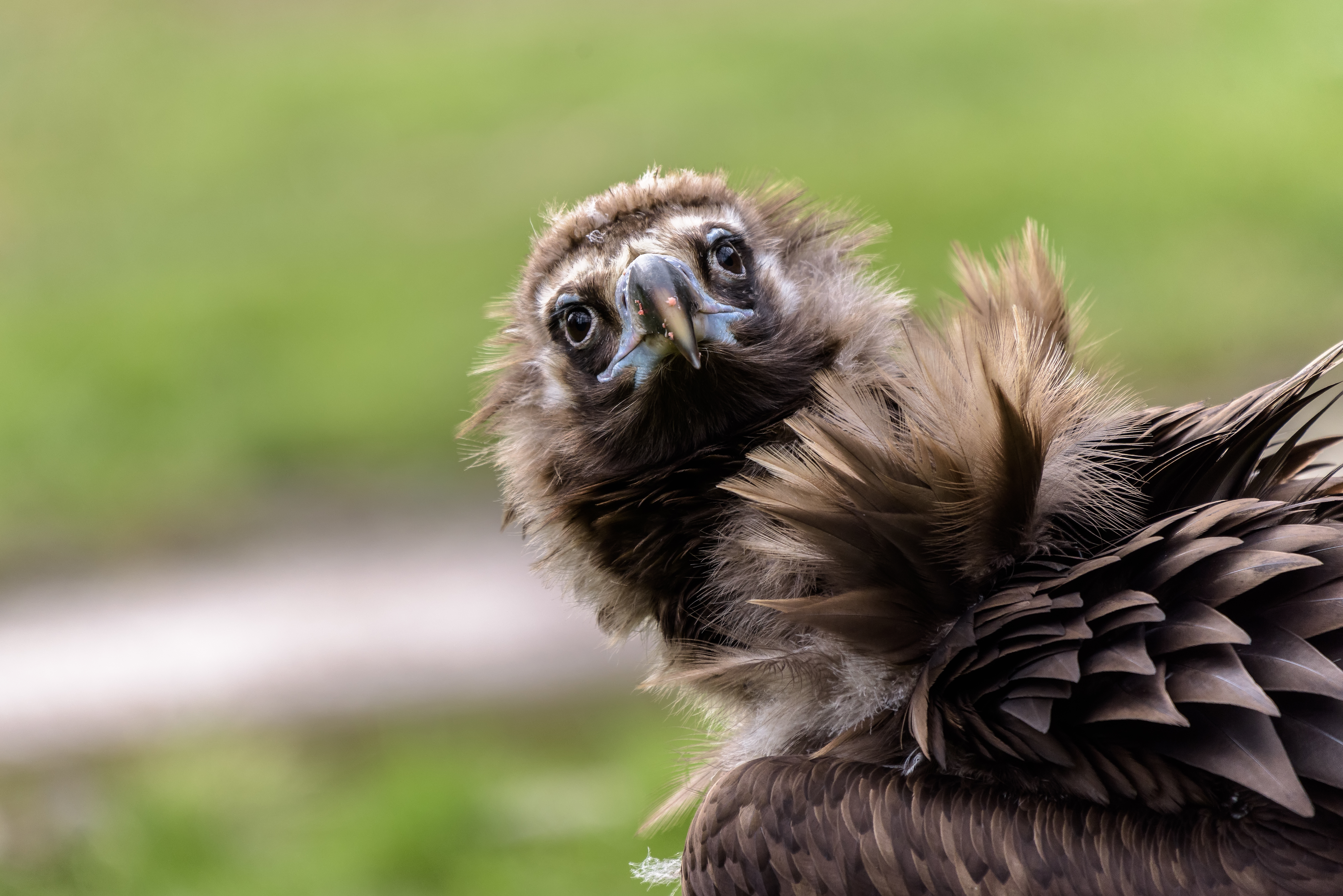 cinereous vulture, Prague Zoo, detail